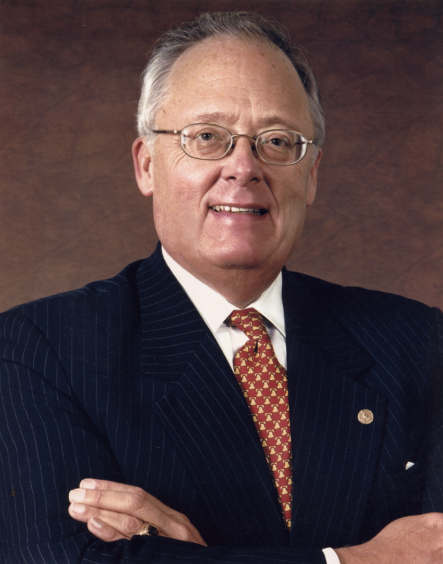 Official photogrpah of Heritage Foundation President Edwin J. Feulner.